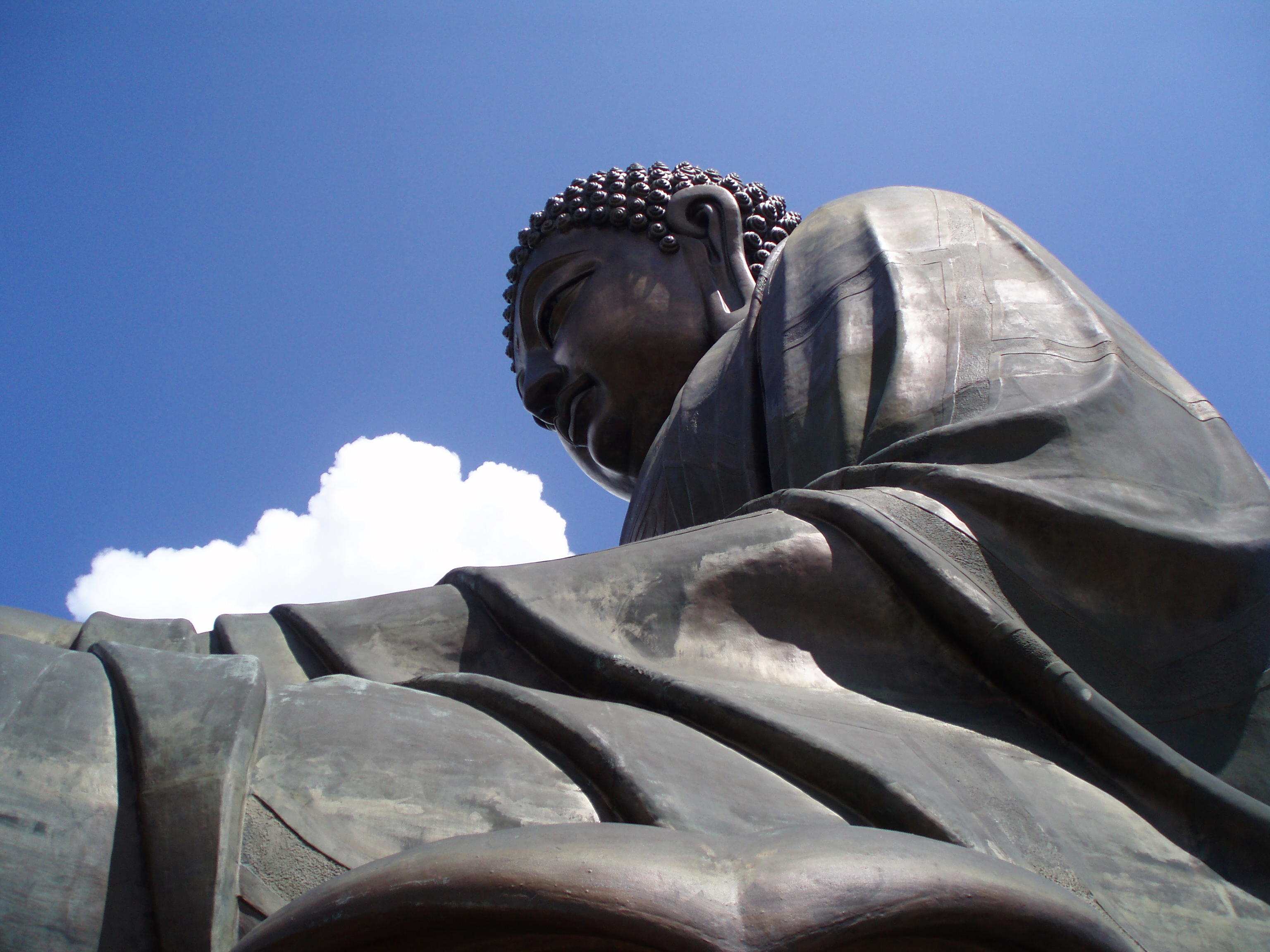 The face of the Tian Tan Buddha, Lantau island, Hong Kong.